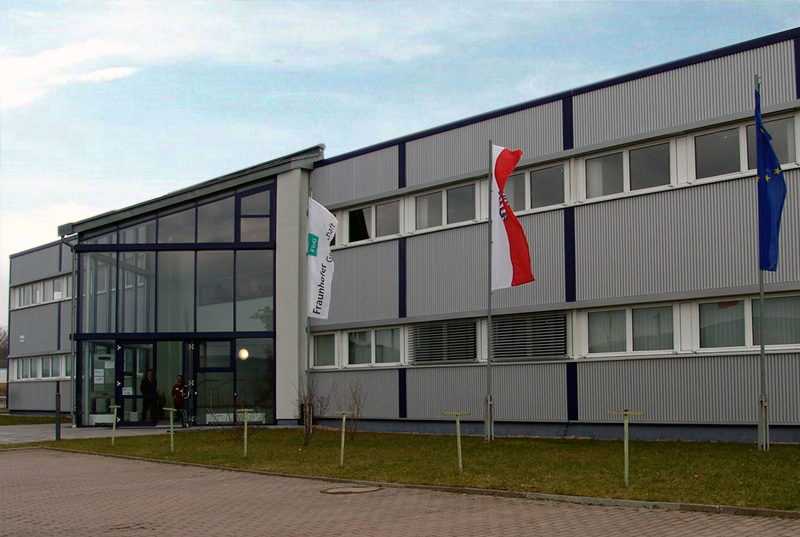 Fraunhofer-Anwendungszentrum Systemtechnik Ilmenau / Außenansicht